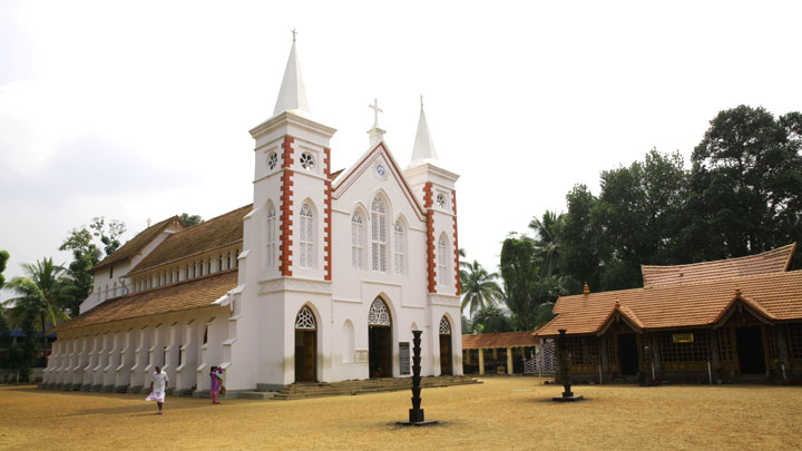 Niranam Church St. Mary's Orthodox Church